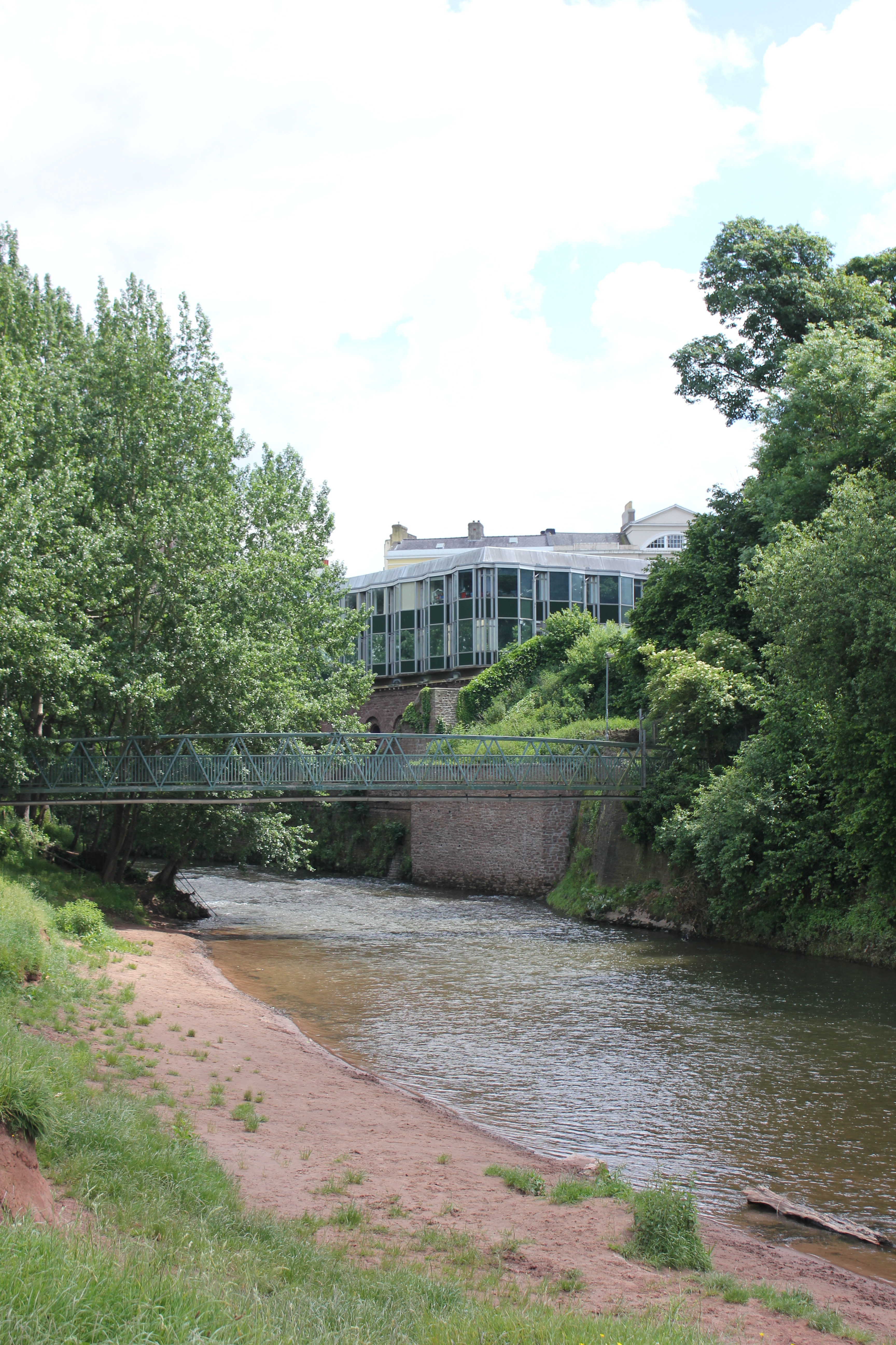 View of Monmouth Museum from Vauxhall Fields, including the river Monnow, Monmouth, Wales